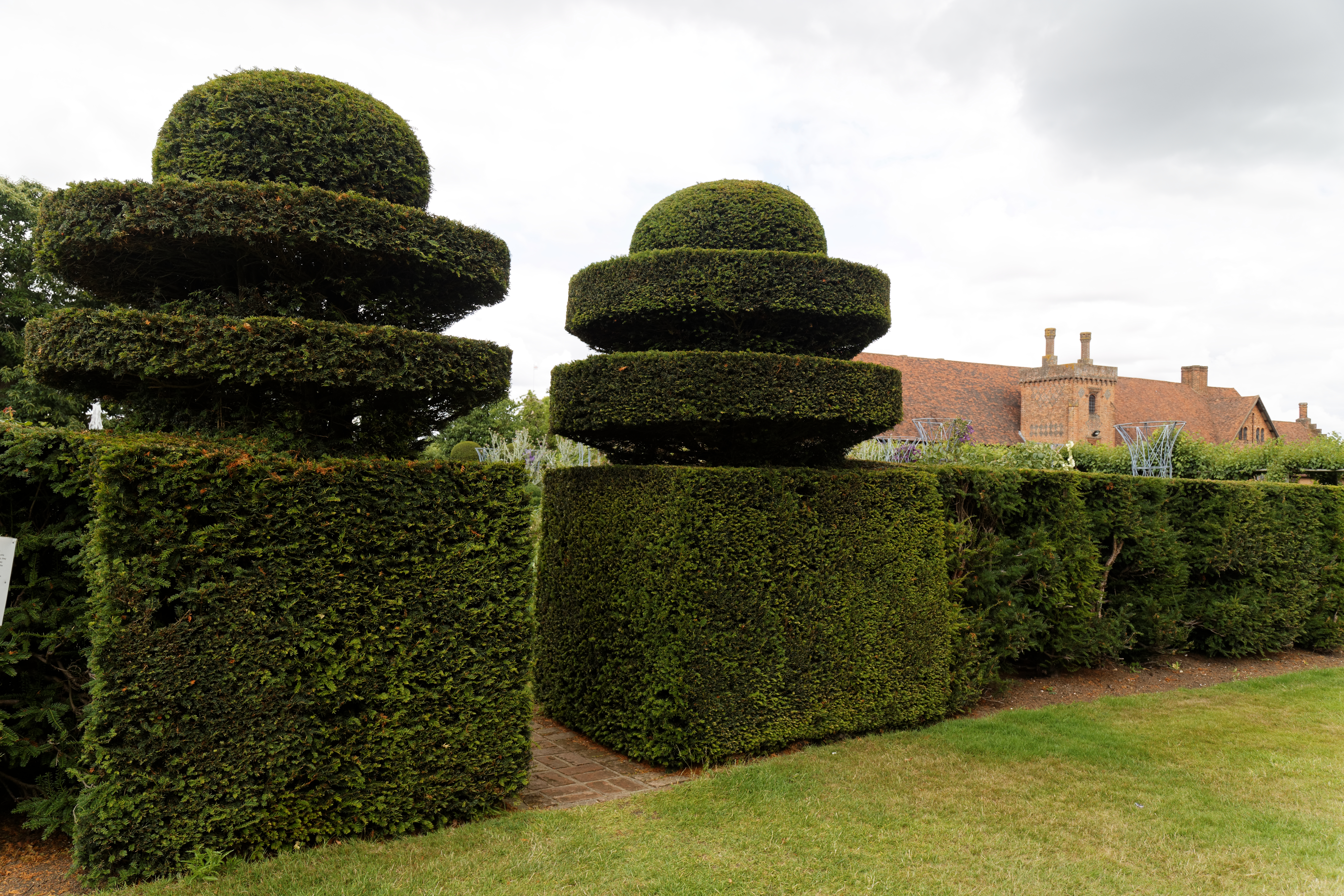 The east hedge and topiary of the West Garden at Hatfield House in Hertfordshire, England.Software: RAW file lens-corrected, optimized and converted to JPEG with DxO OpticsPro 10 Elite, and likely further optimized and/or cropped and/or spun with Adobe Photoshop CS2.